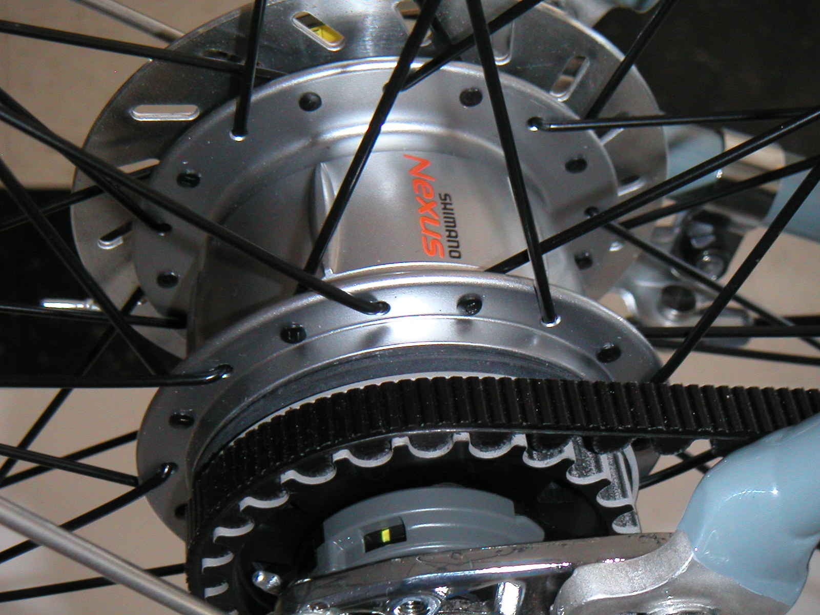 Belt-drive interal-geared multi-speed rear hub